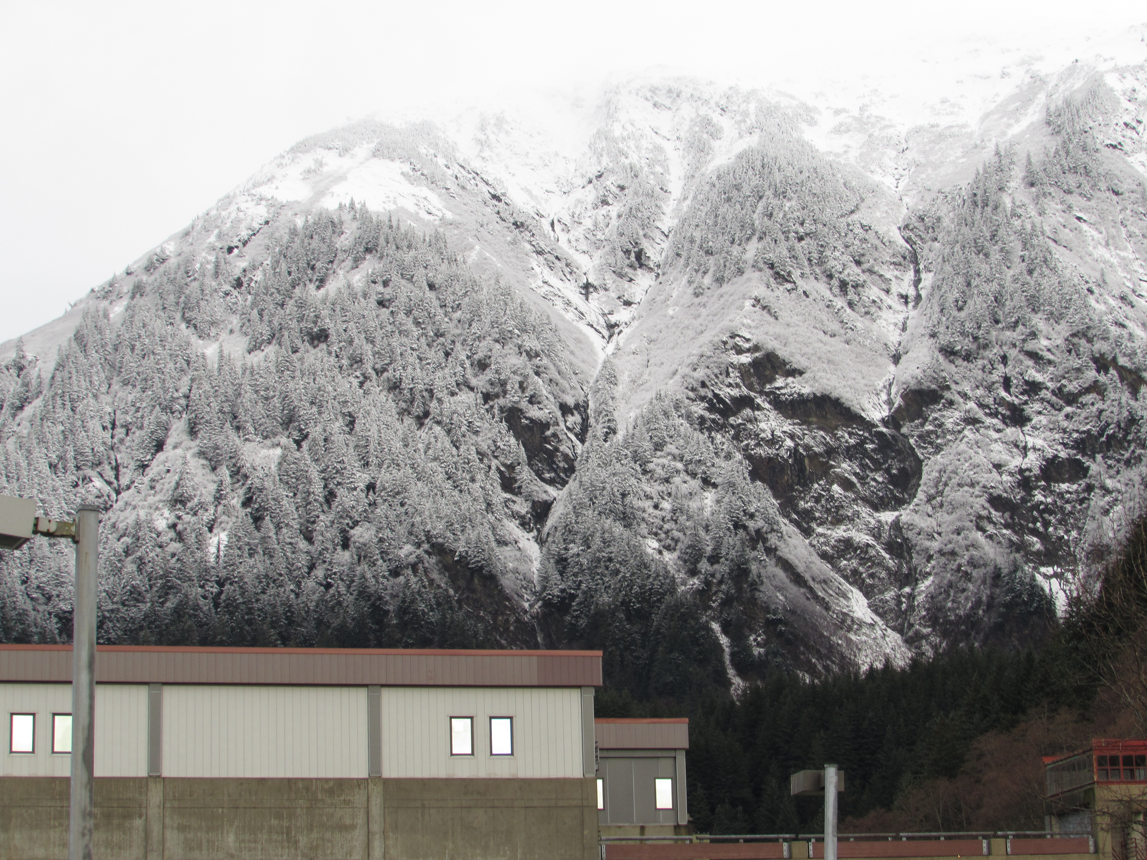 Photo shows Mount Juneau, in Juneau, Alaska United States. Photo shows fresh winter snowfall, on 11 November 2015. The downtown public library and parking garage is shown in most of the bottom of the picture. The building in the extreme, bottom right of the photo, which resembles a tower, is part of the old Alaska Juneau Mine